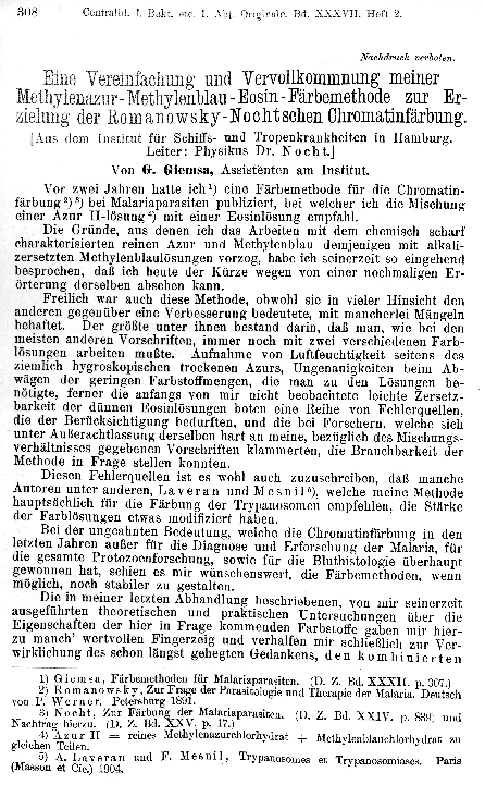 Original method for Giemsa staining